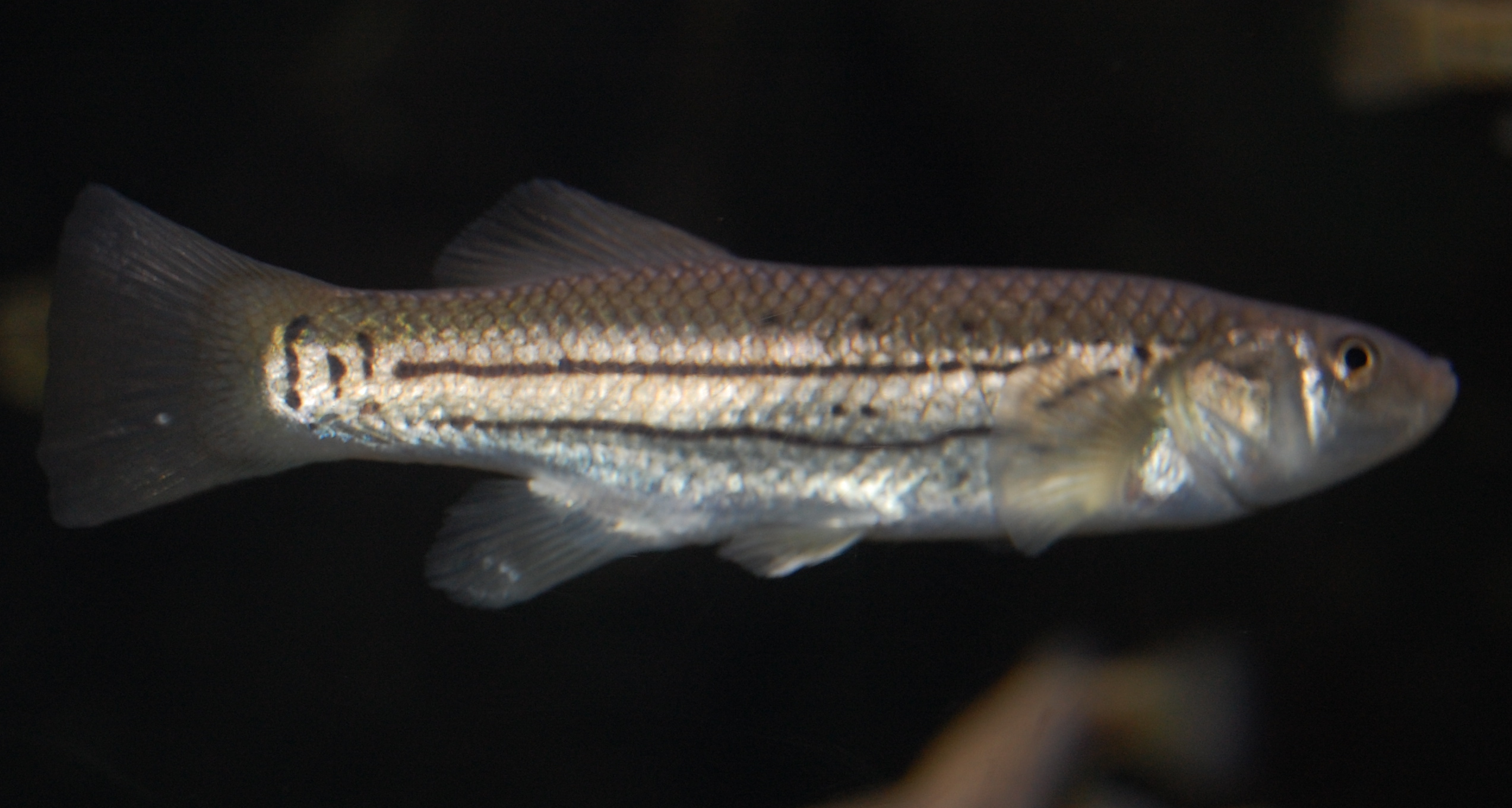 Striped killifish (Fundulus majalis), female specimen (horizontal stripes), at the New England Aquarium, Boston MA.